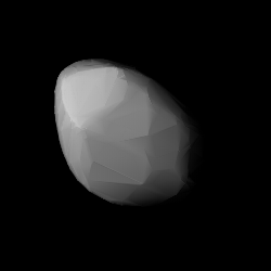 3D convex shape model of 1685 Toro, computed using light curve inversion techniques. J. Hanuš, J. Ďurech, M. Brož, B. D. Warner (June 2011). "A study of asteroid pole-latitude distribution based on an extended set of shape models derived by the lightcurve inversion method". Astronomy and Astrophysics 530: A134. ISSN 0004-6361. arXiv